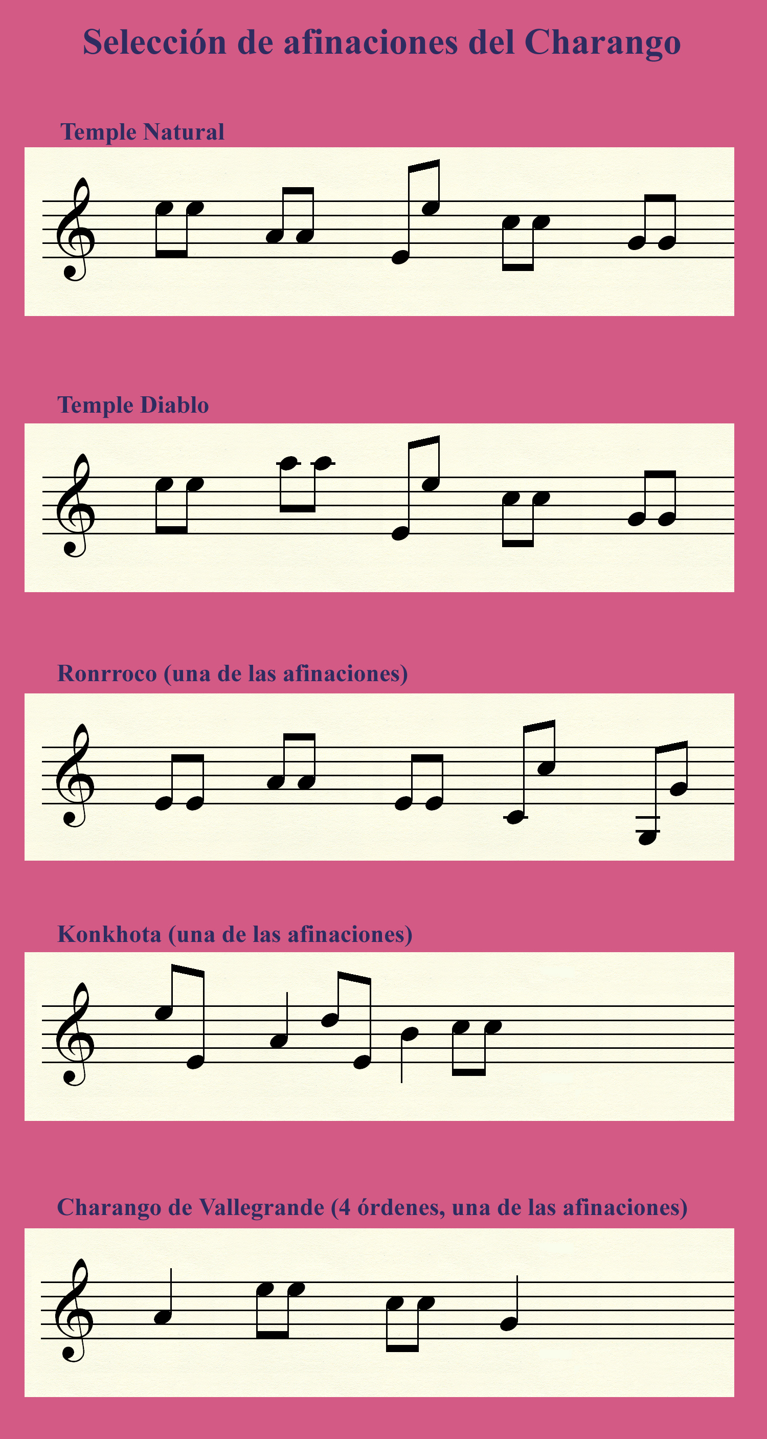 Tuning of the charango.